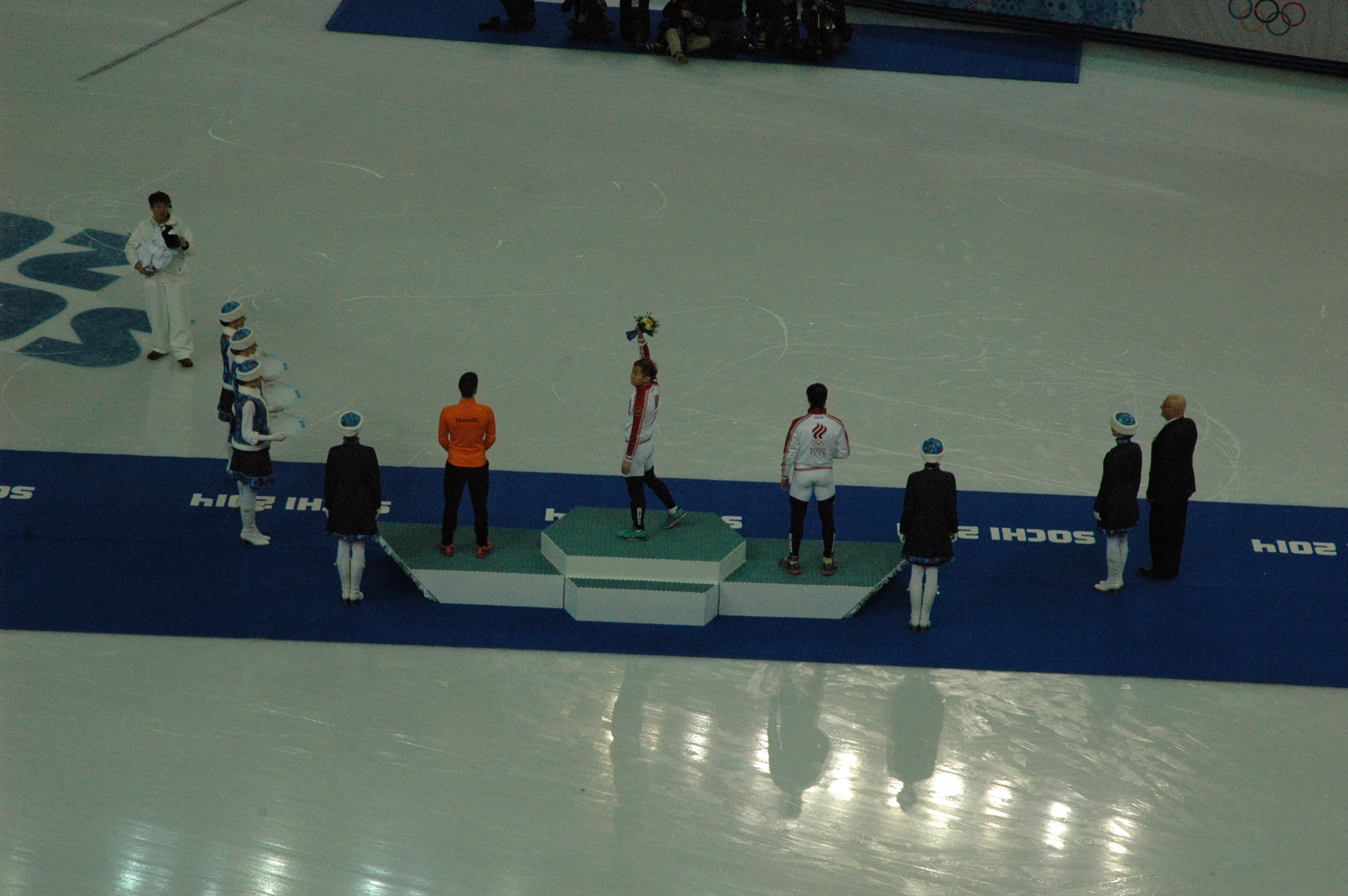 Men's 1000m short track speed skating, 2014 Winter Olympics, Podium Medalists Gold medal Viktor Ahn Russia Silver medal Vladimir Grigorev Russia Bronze medal Sjinkie Knegt Netherlands